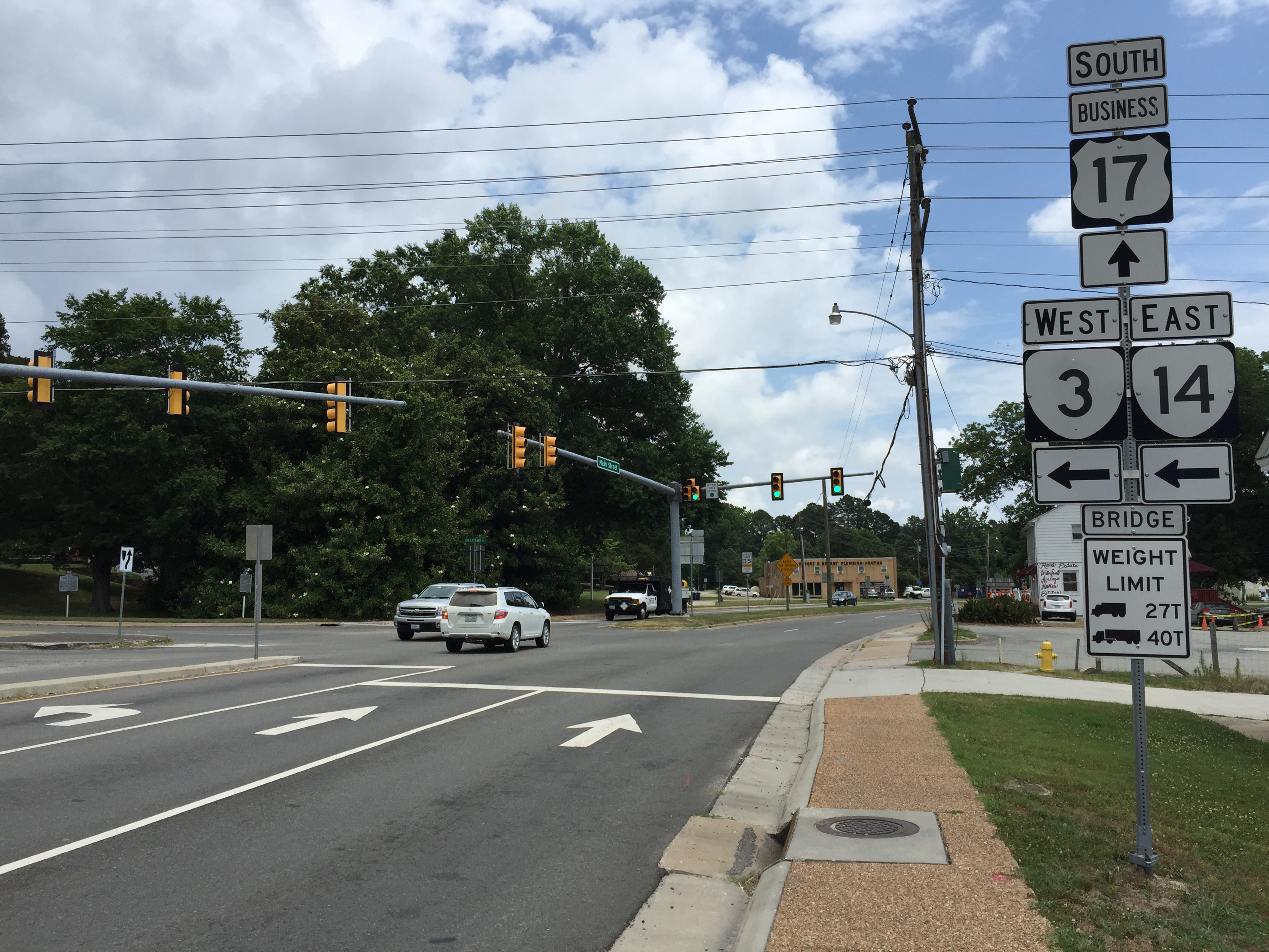 View south along U.S. Route 17 Business (Main Street) at Virginia State Route 3 and Virginia State Route 14 (John Clayton Memorial Highway) in Gloucester Courthouse, Gloucester County, Virginia